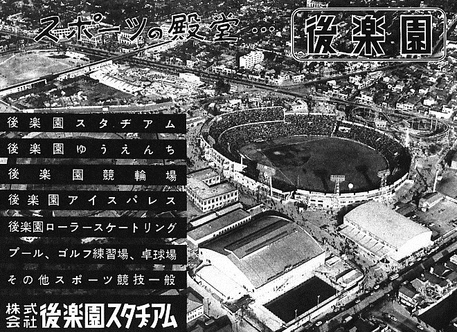 Advertisement of Korakuen Stadium in 1956